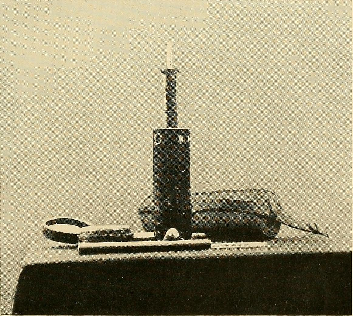 Identifier: mapssurvey00hink Title: Maps and survey Year: 1913 (1910s) Authors: Hinks, Arthur R. (Arthur Robert), 1873-1945 Subjects: Maps Surveying Publisher: Cambridge, University press Text Appearing Before Image: I. Aneroid Barometer. Text Appearing After Image: 2. Boiling Point Apparatus or Hypsometer. Determinaiion of Heights. ROUTE TRAVERSING 75 It is not safe to assume that the sea level pressure is thesame at two places fifty miles apart. Therefore if one wishesto disentangle the weather changes from the altitude changes,it is almost necessary to have a barometer stationary in altitude,as nearly as possible below the barometer which is being carrieduphill. The weather changes of pressure are given by theformer and applied to the latter ; what is left of change maybe ascribed to the variation in height of the travelling baro-meter. In many cases it is not possible to leave a barometer at thebase camp, to be read while the travelling barometer is away.One must then do the best possible by returning to the basecamp as soon as possible after the ascent, and determining thechange in the reading there which has taken place during theday. Thus, suppose that a climber reads his barometer at 4 a.m.before setting out, and records frequent readings